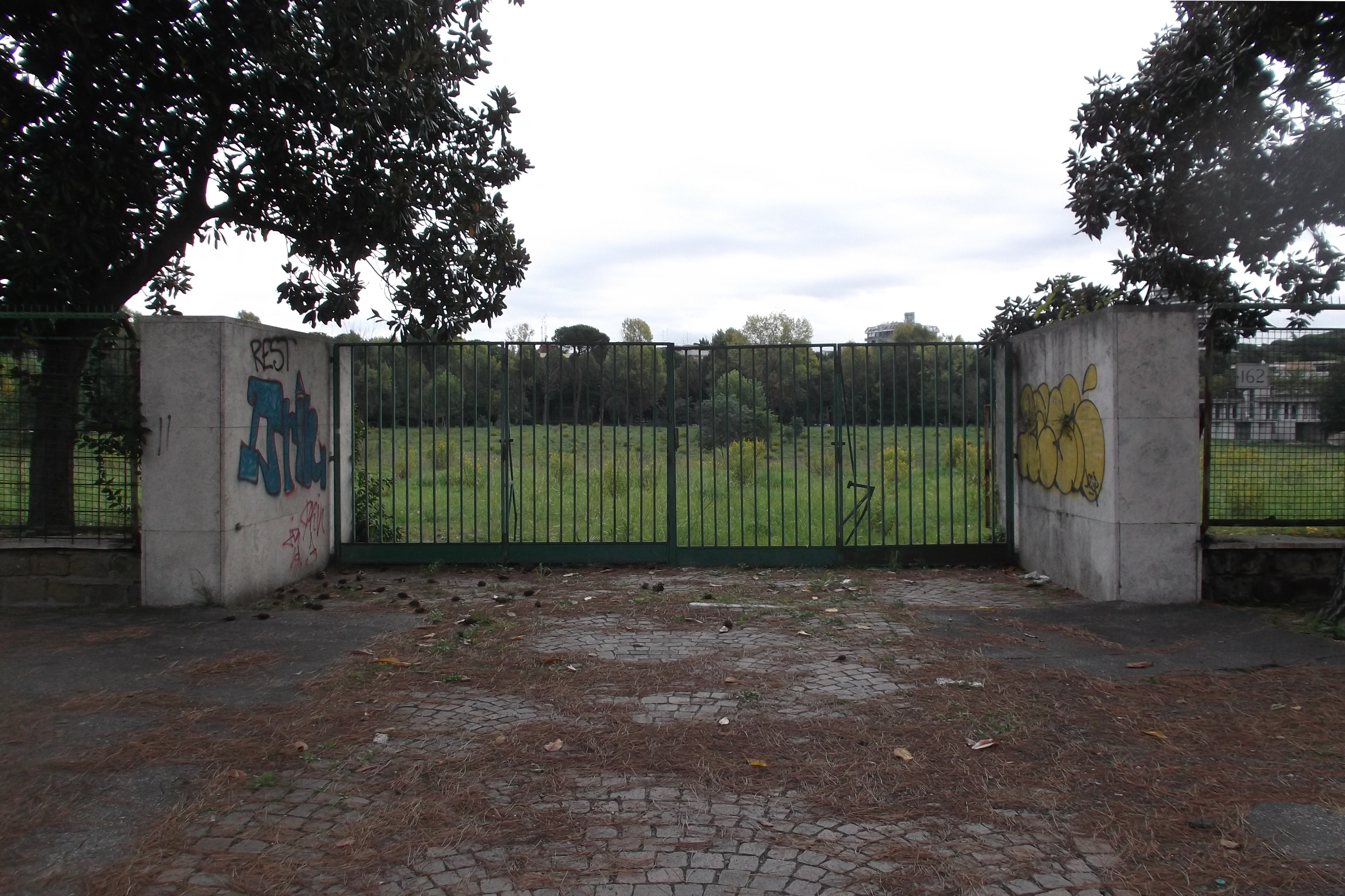 Main entrance of the (now demolished) Olympic Velodrome in Rome, Italy